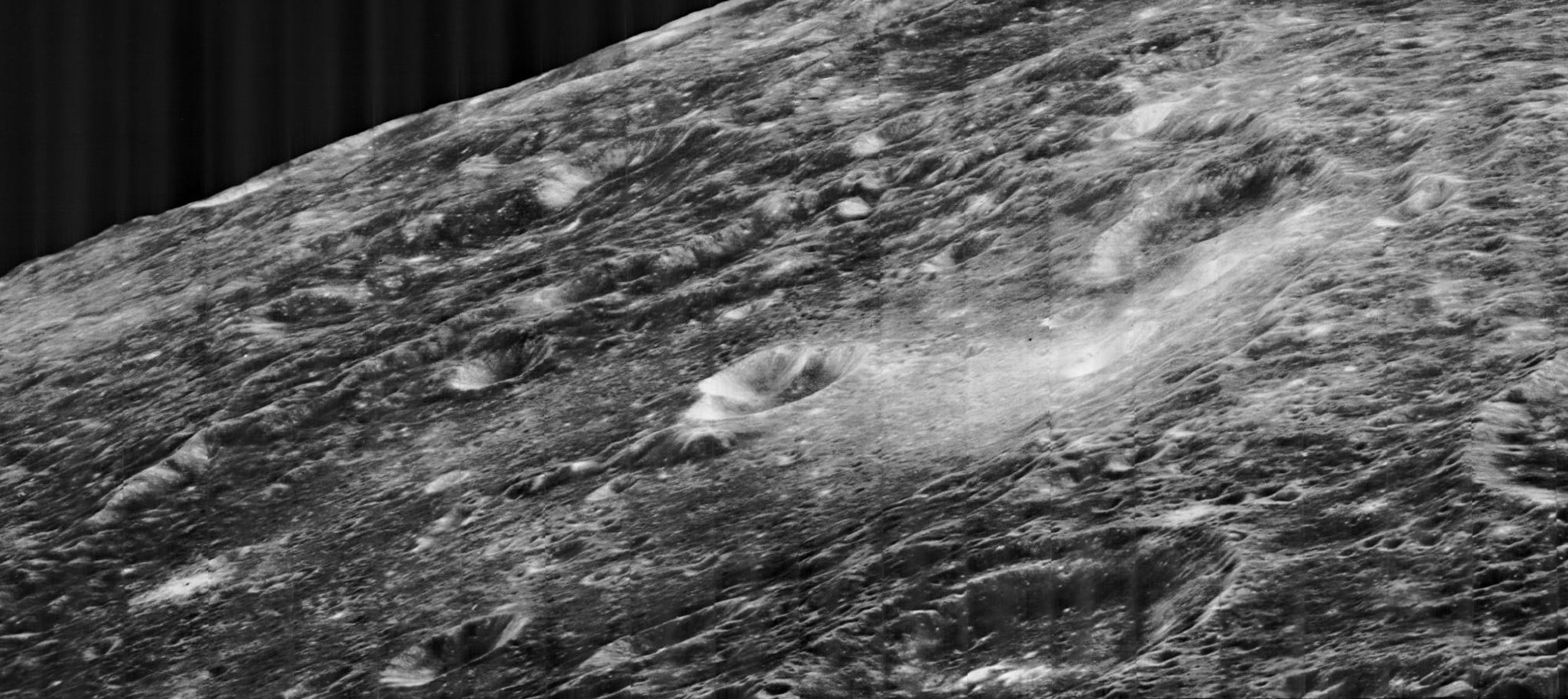 Hilbert, on the far side of the moon, facing west.